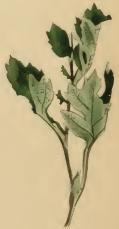 Stainton’s Natural History of the Tineina (1855–1873): Recurvaria leucatella a sprig of hawthorn eaten by larva